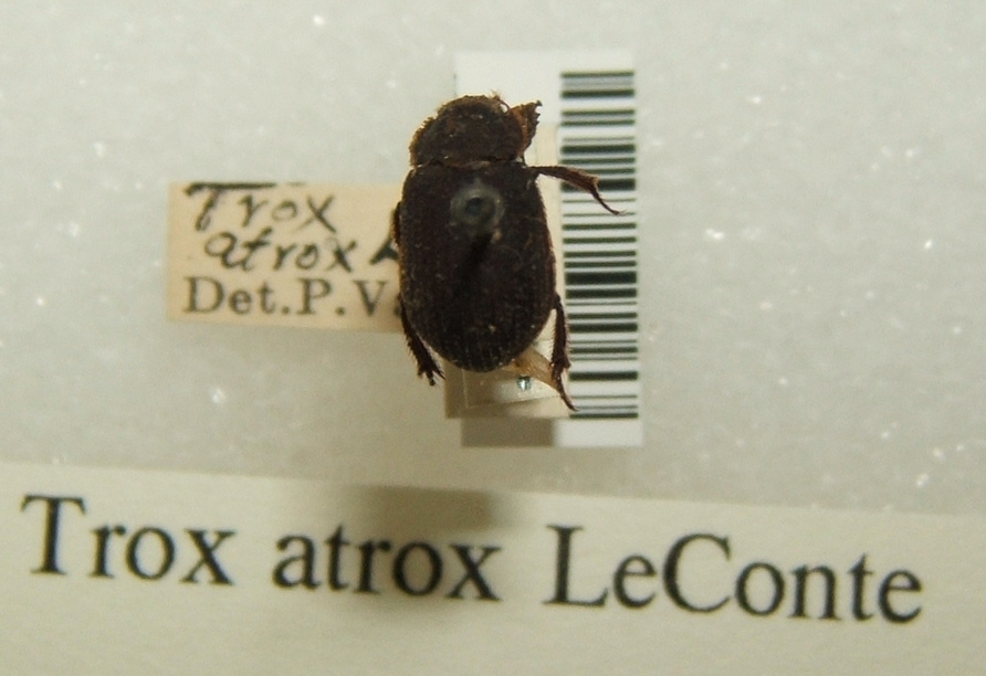 Trox atrox adult taken by Shawn Hanrahan at the Texas A&M University Insect Collection in College Station, Texas. Cropped version: Trox atrox sjh.cropped.jpg